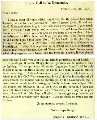 derivative work created by cropping, assembling and enhancing text printed on two pages from The early political and military history of Burford by Muir, Robert Cuthbertson; Publication date 1913. The text on the pages was in a letter written by Elisha Hall, Ingersoll, Ontario in 1837. He died in 1868. The book and the letter are in the public domain.